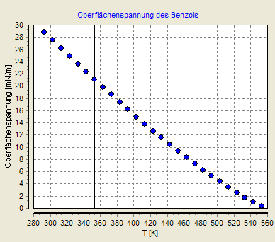 Diagram shows surface tension of benzene